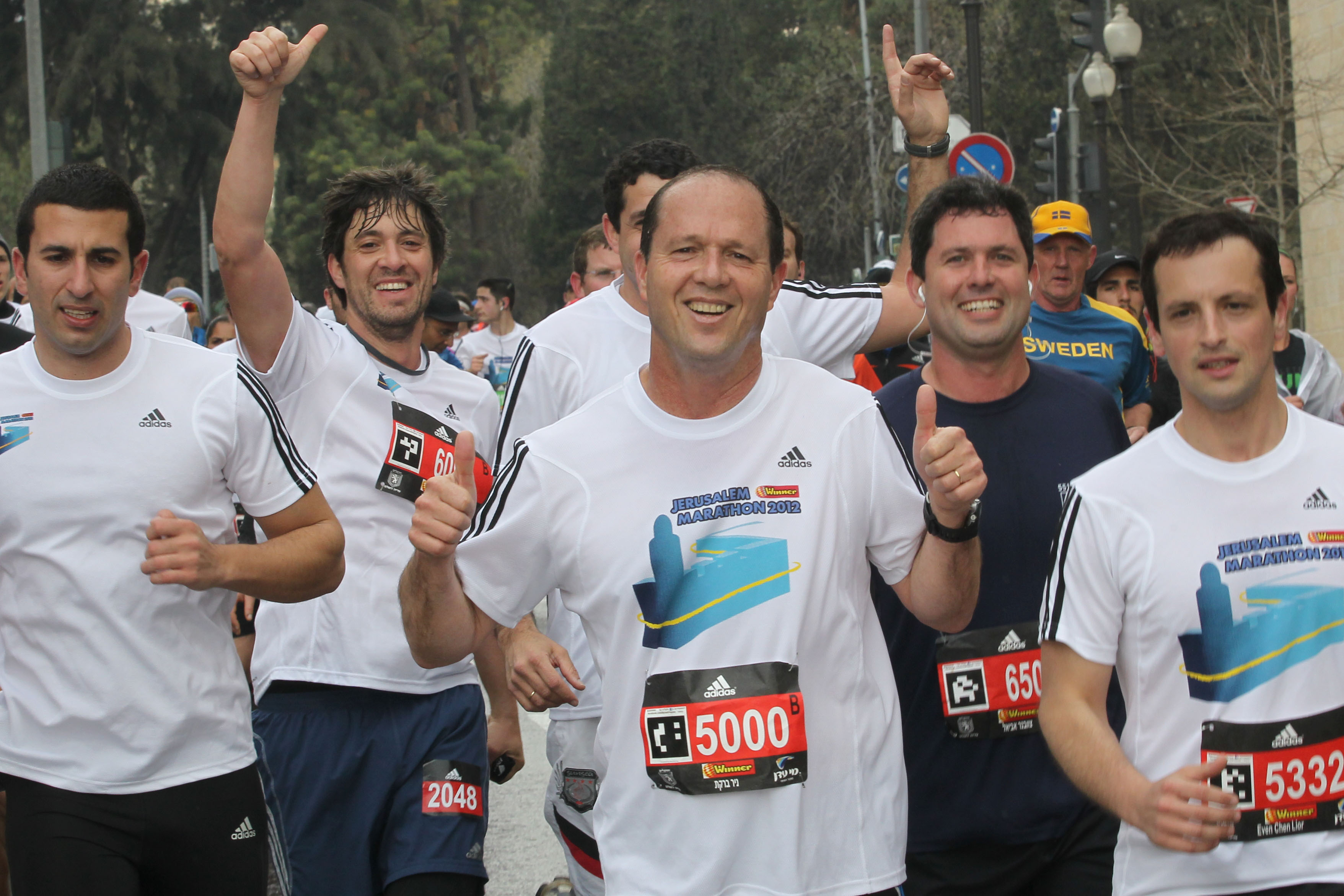 Jerusalem, Yitshak Kariv street - Runners are seen during The International Jerusalem Marathon. March 16, 2011. Photo by nati shohat / Flash90- Runners of the Half Marathon Course (color red) Jerusalem